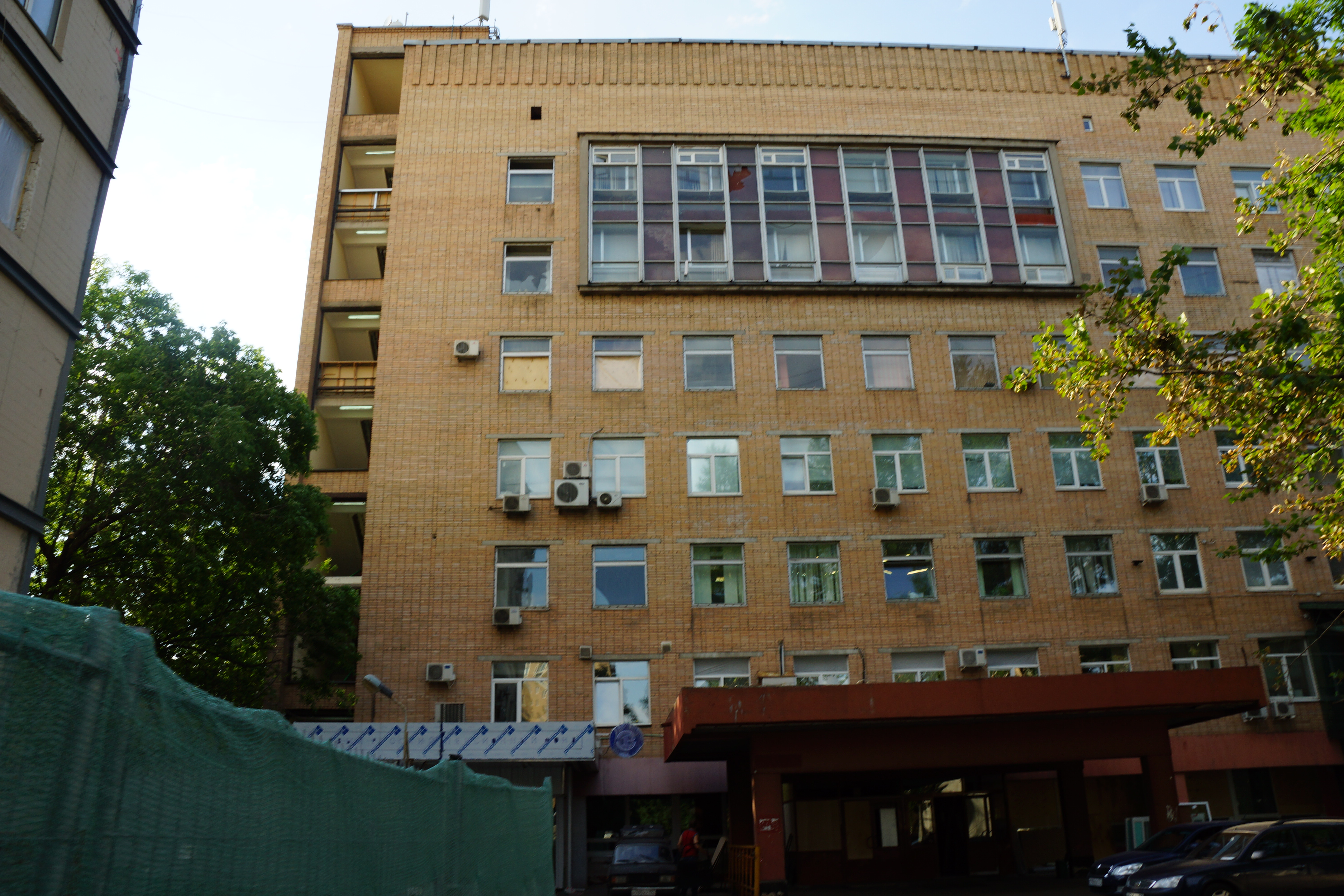 Kutuzovsky Prospekt, 12, Moscow, Russia